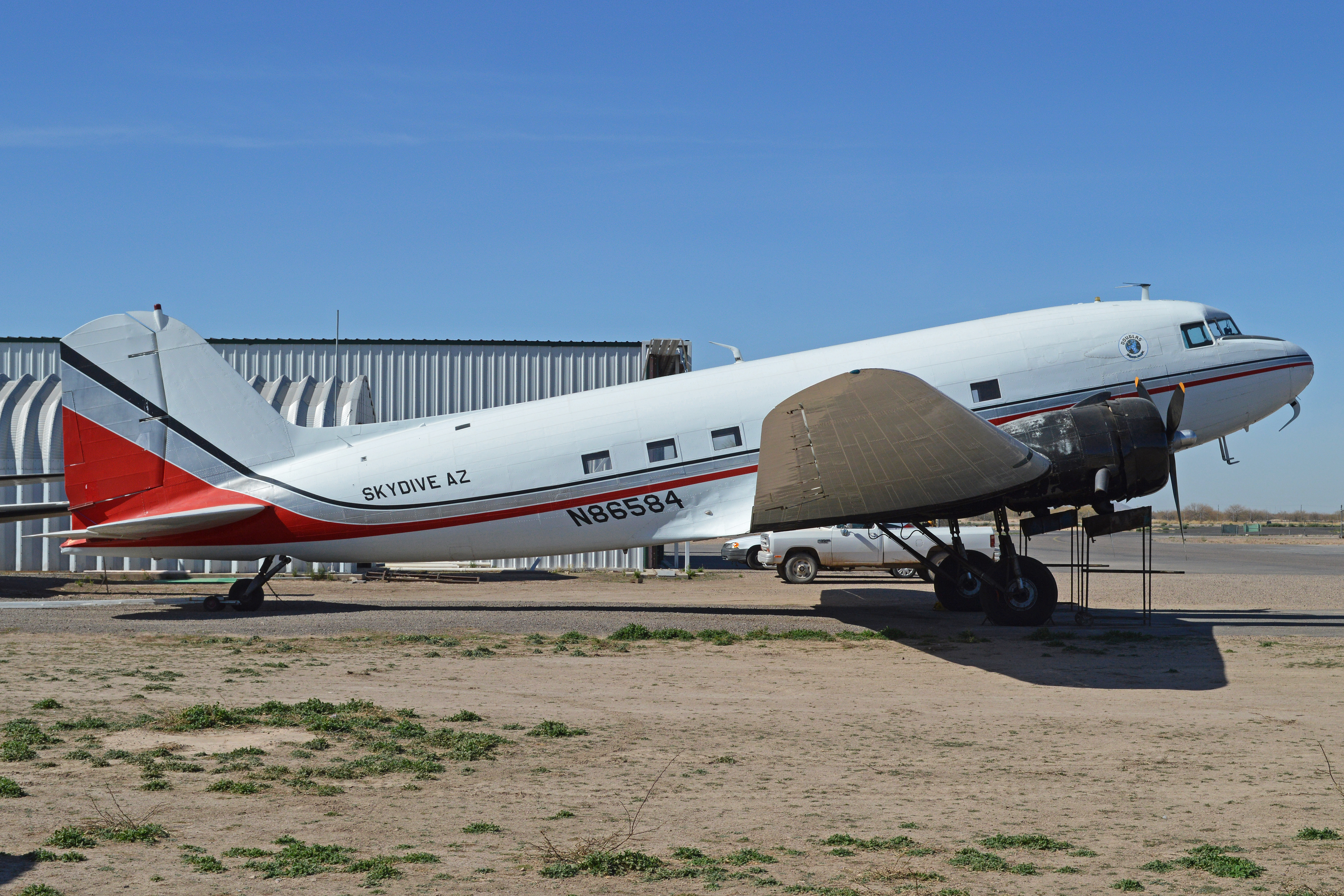 Operated by Skydive Arizona. Original military ID '42-6483'. c/n 4935. Eloy Municipal Airport. Arizona, USA. 11-2-2014